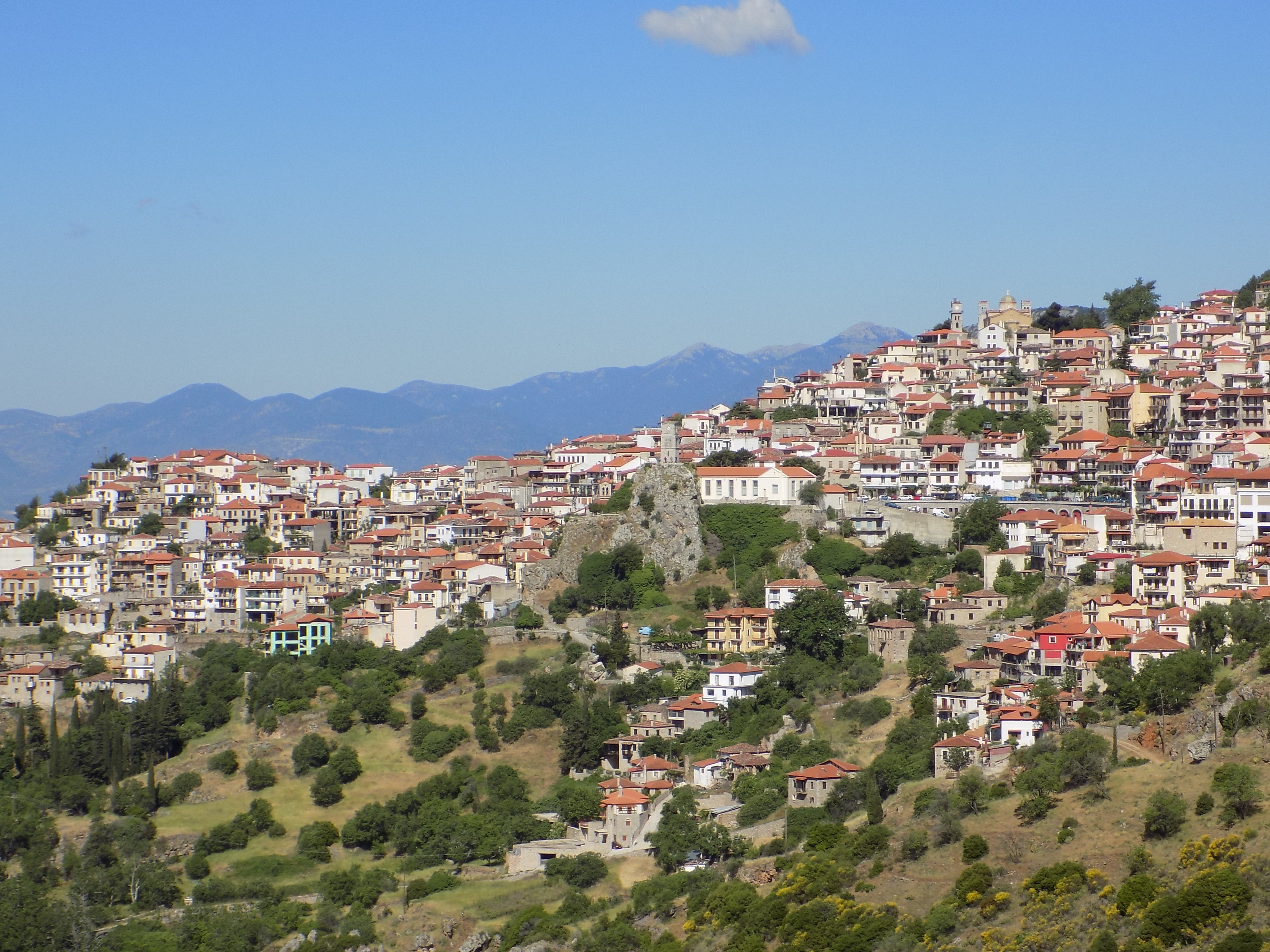 Arachova near Delphi, Central Greece